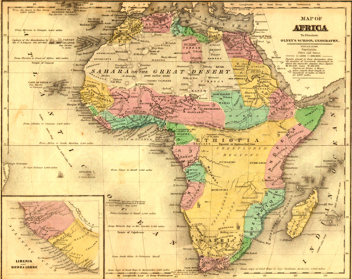 African Map before the 1884 Berlin Conference to divide Africa.